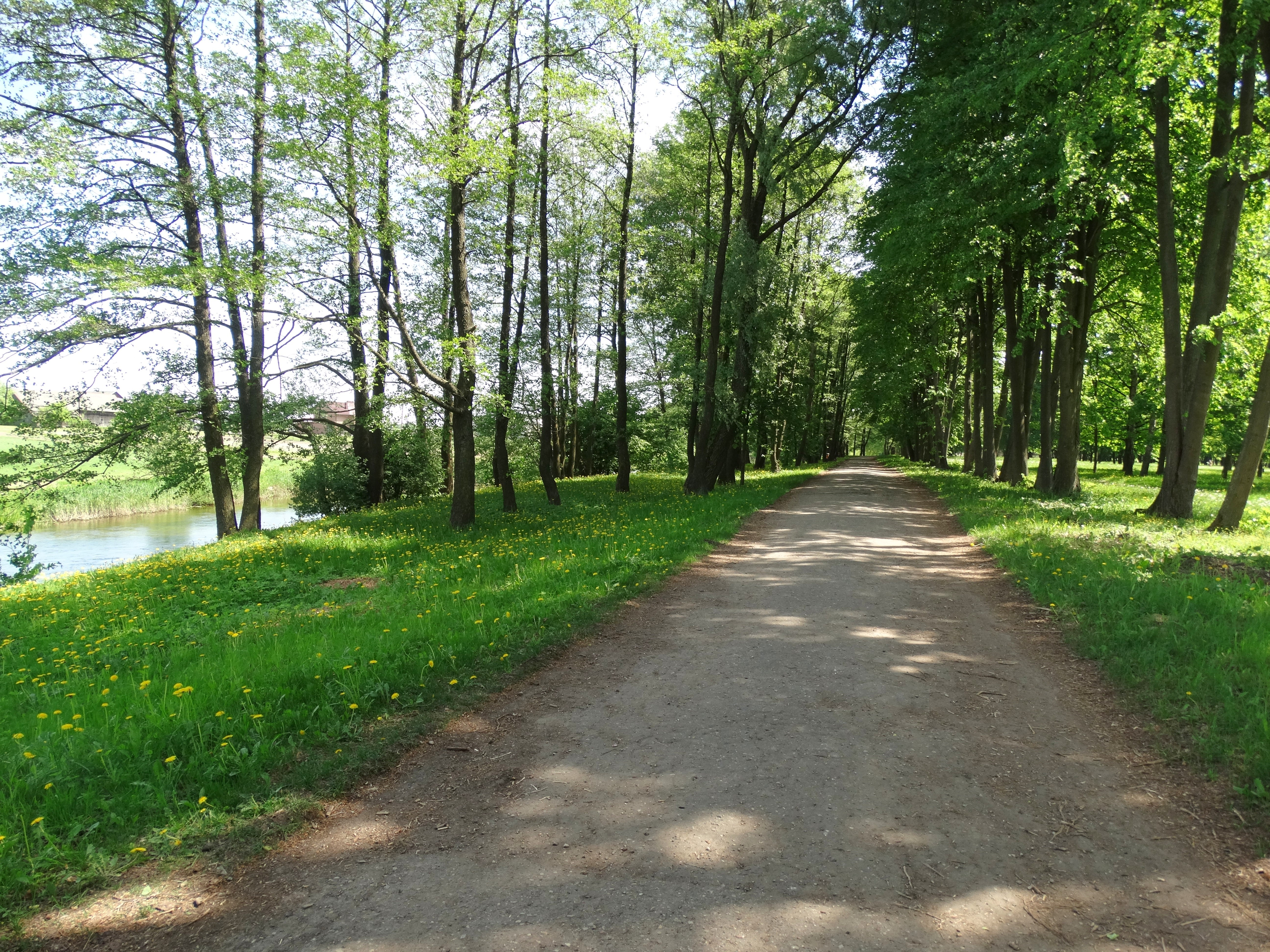 Pašešupis Park in Marijampolė, Lithuania